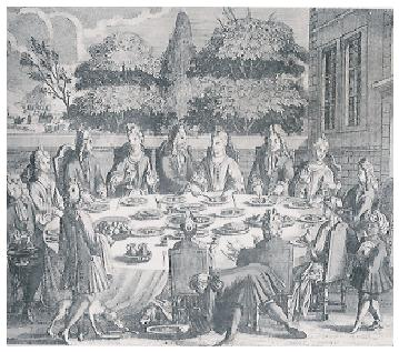 Drawing of a meal prepared by François Vatel for the Prince of Condé